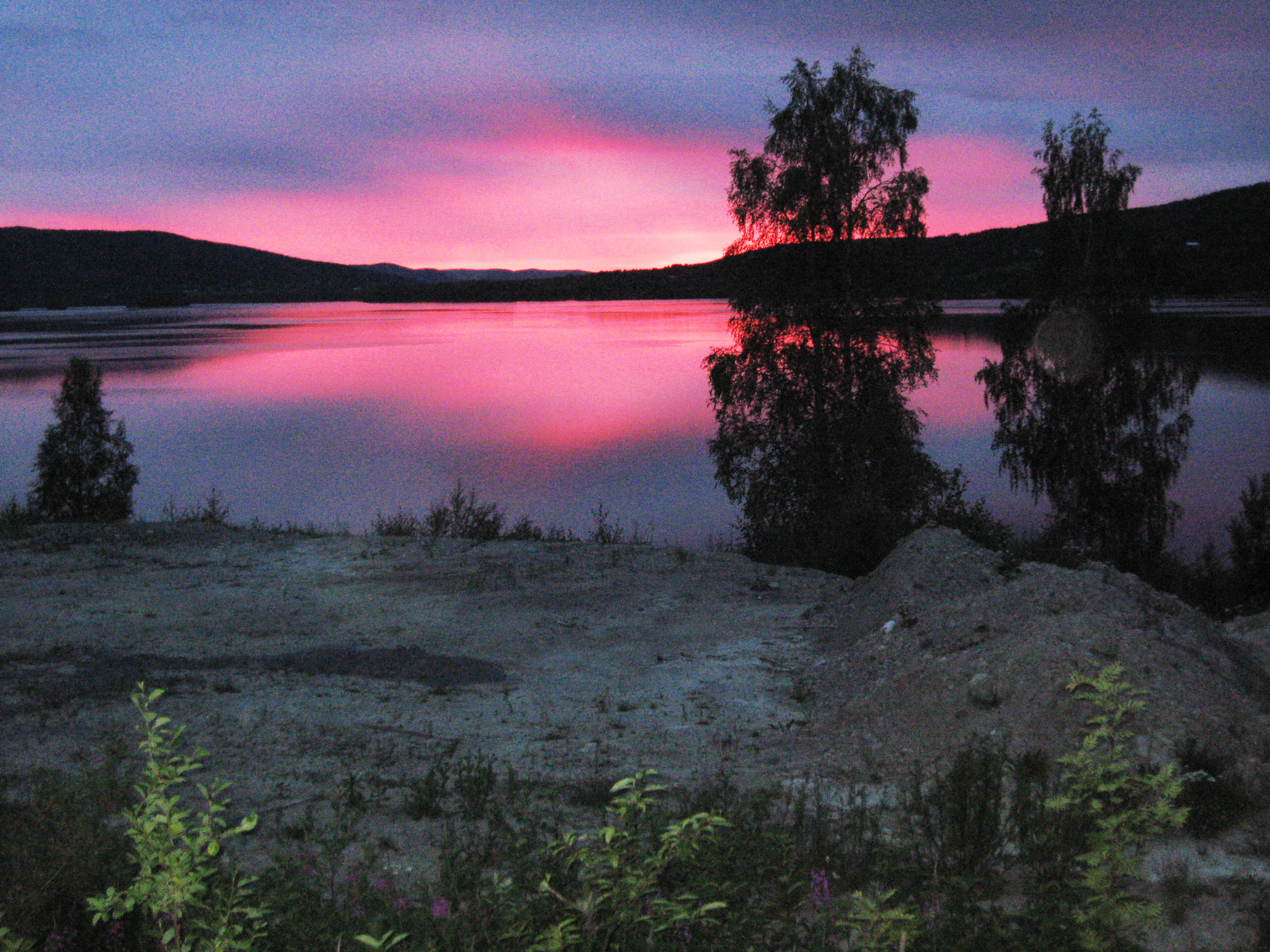 Sunset